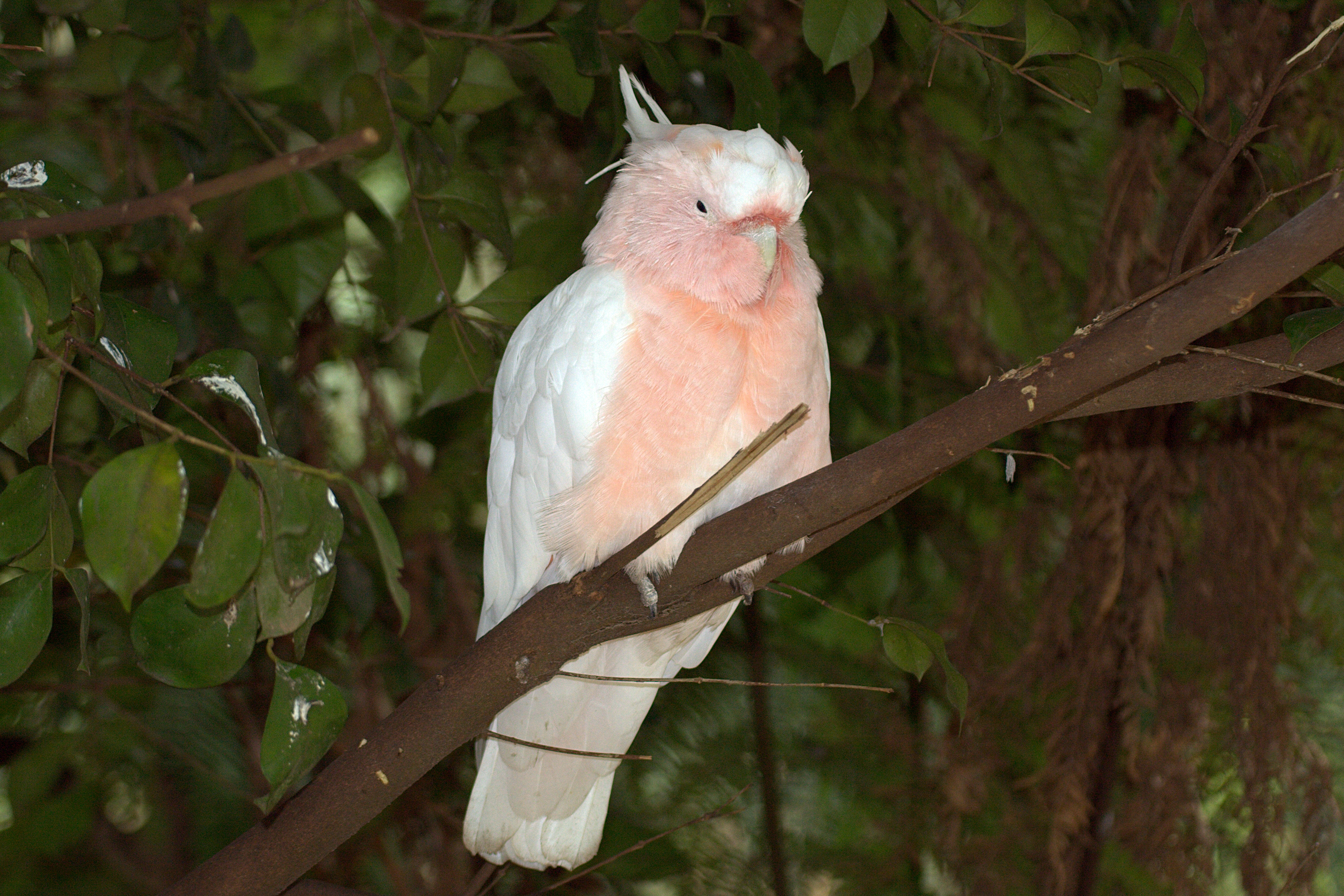 Major Mitchell's Cockatoo (Cacatua leadbeateri), Perth, Western Australia